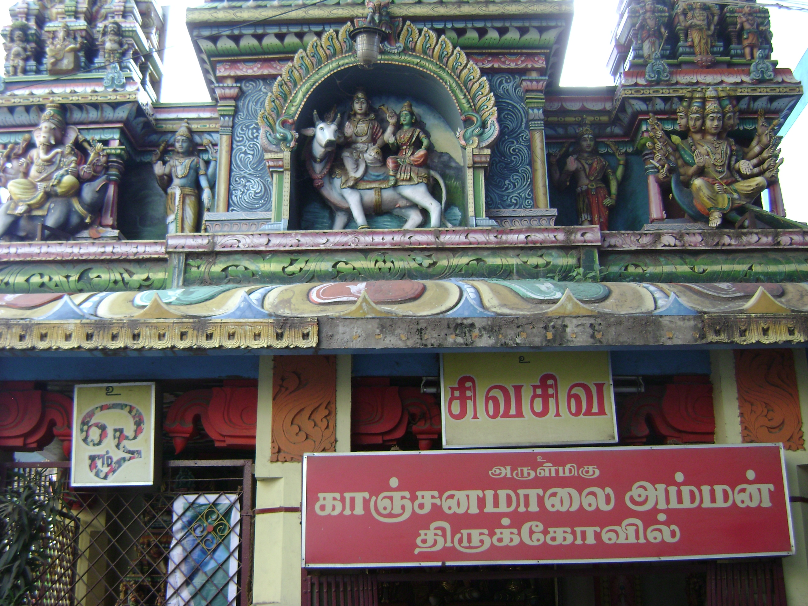 Kanchanamaalai Temple for Godess Meenakshi Parents at Elukadal Street, Madurai, Tamilnadu, India